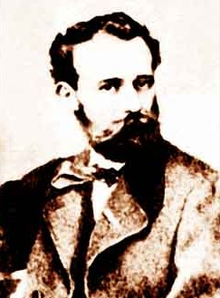 Picture of Kornelije Stankovic (1831-1865) Source: [1] Note: exact author death unknown